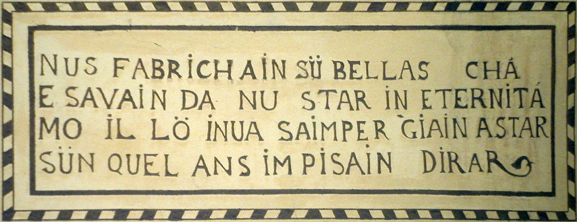 Sgraffito on a house in Guarda, Switzerland. "Guarda Sgraffito. JPG" transformed to rectangle, for readability.Translation: "We build such pretty houses and know that we not stay forever. But about the place we will go to forever, we think only rarely.